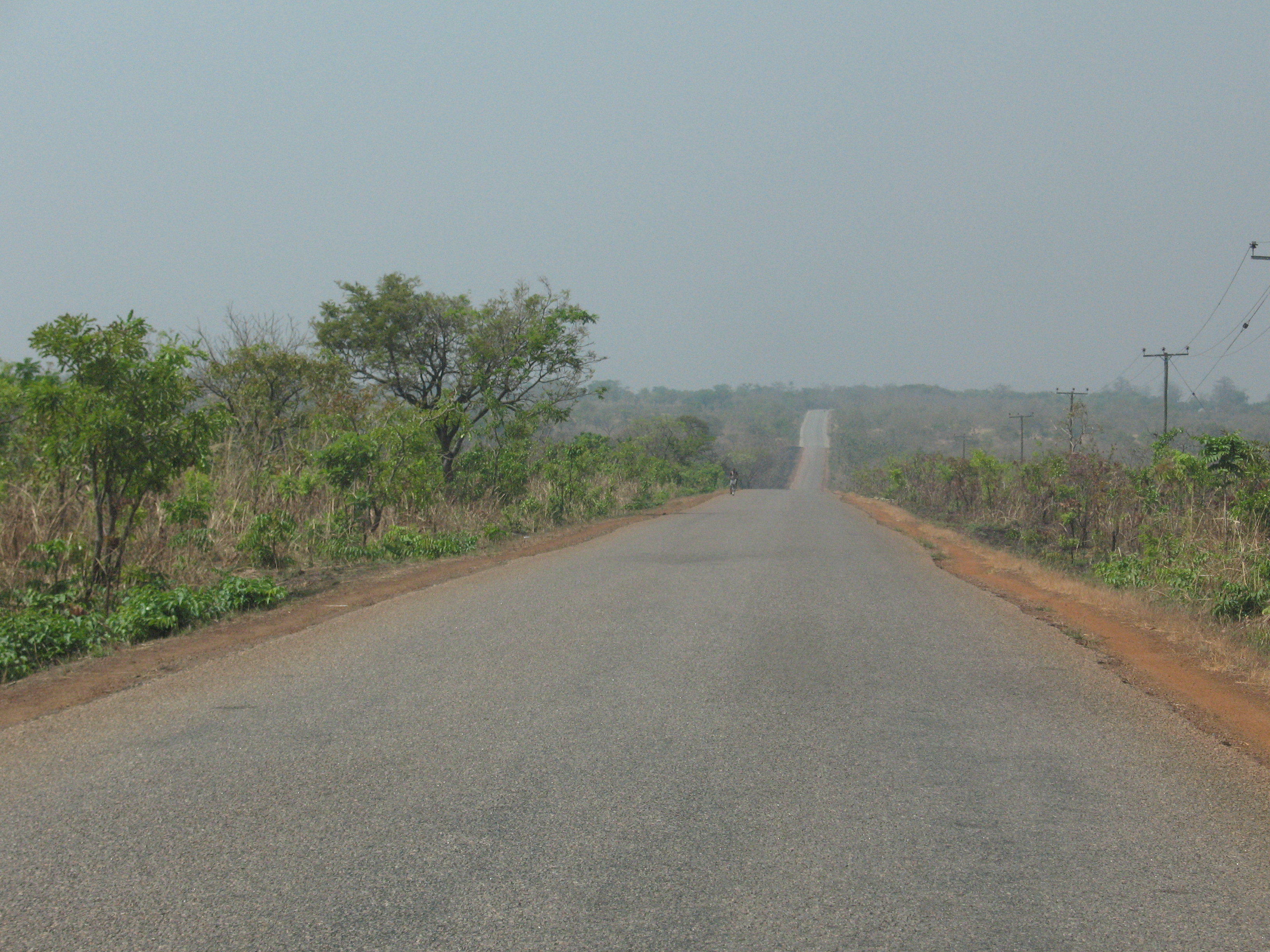 The road between Tamale and Yendi, Northern Region, Ghana